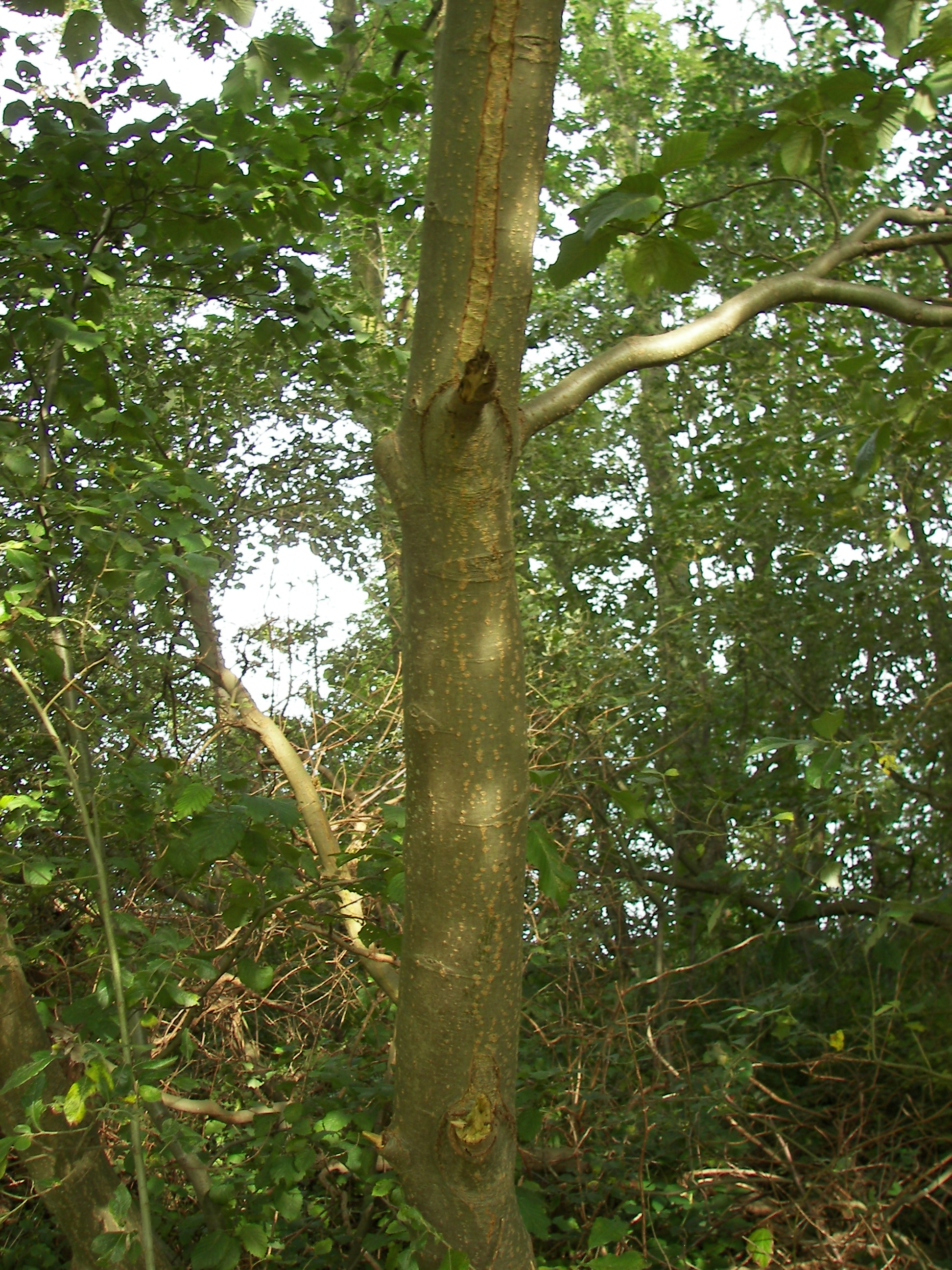 Grey Alder (Alnus incana) bark, near the Laacher See, Germany